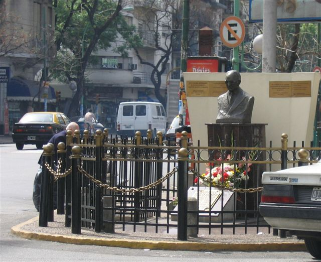 Title: Memorial Osvaldo Pugliese, Buenos Aires Author: Ute D. Mayer (2005)